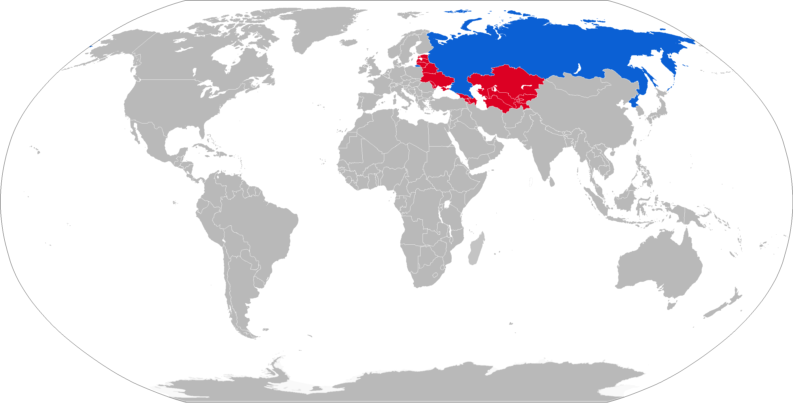 Map with S-25 operators in blue and former operators in red